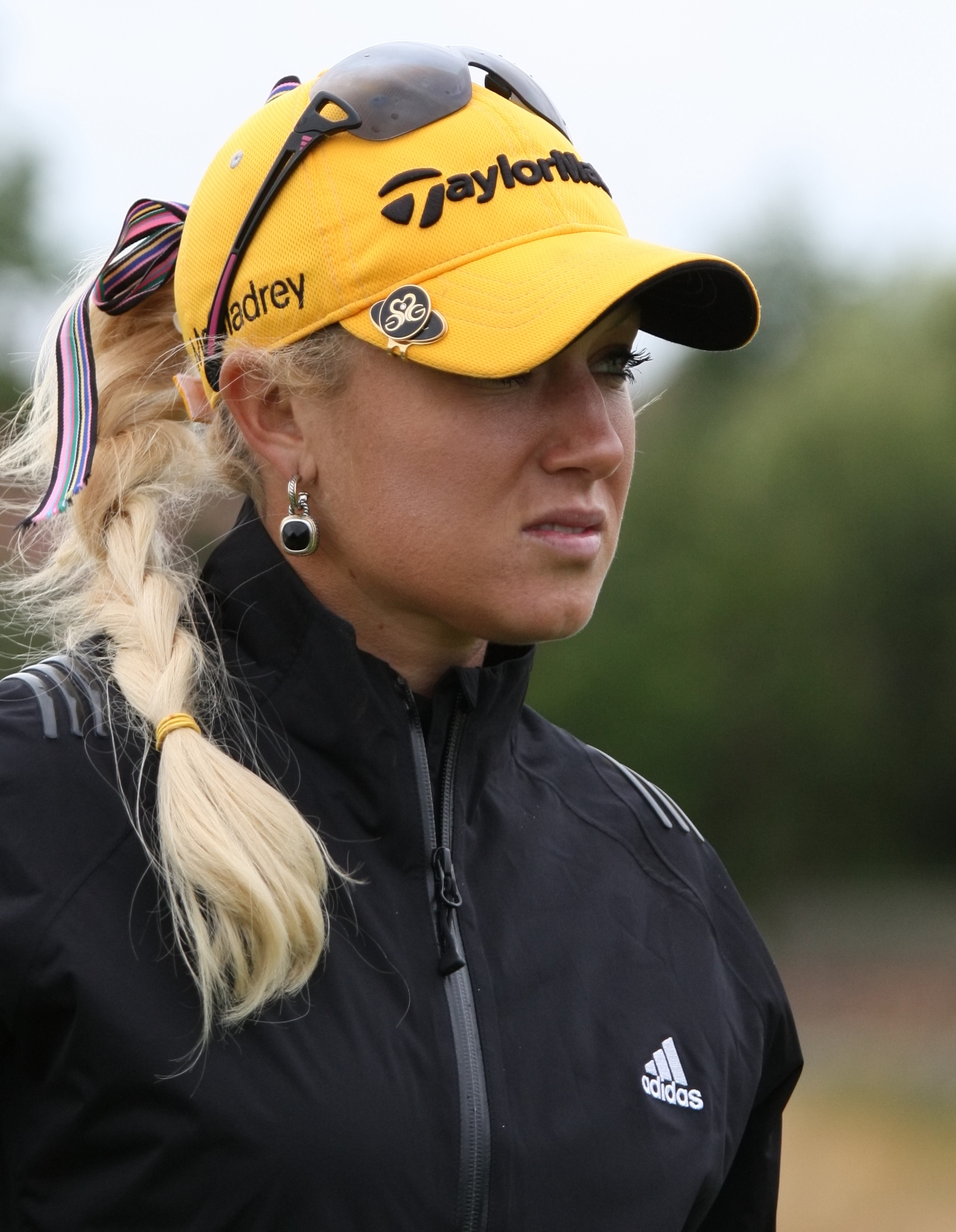 LYTHAM ST ANNES, UNITED KINGDOM - JULY 28: Natalie Gulbis of USA at the 18th tee during pro-am round before 2009 Ricoh Women's British Open held at Royal Lytham & St Annes on July 28, 2009 in Lytham St Annes, England. (Photo by Wojciech Migda)